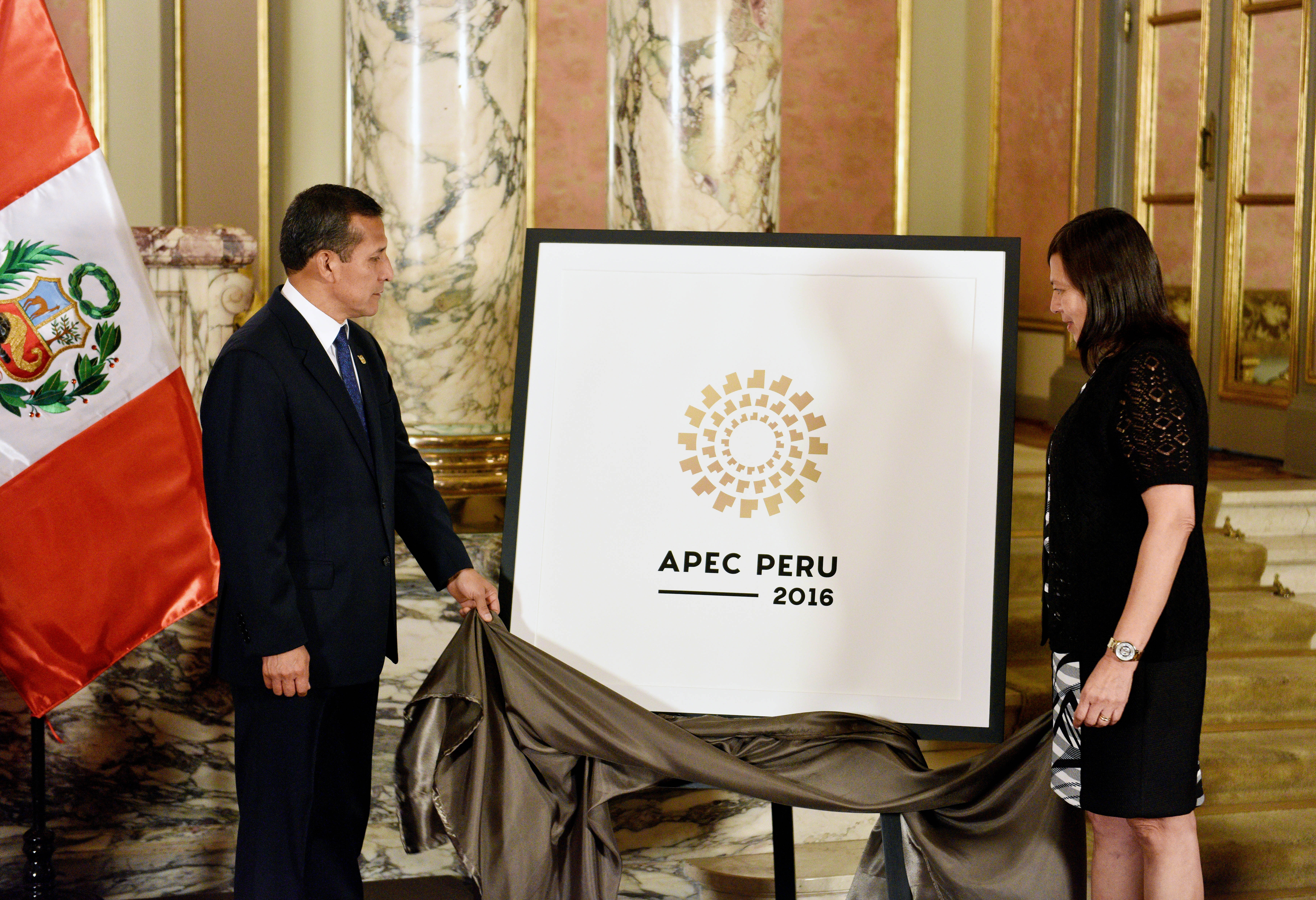 Unveiling of the APEC Peru 2016 logo by President Ollanta Humala and Foreign Minister Ana María Sánchez at the launching ceremony of the APEC Summit at the Government Palace in Lima.